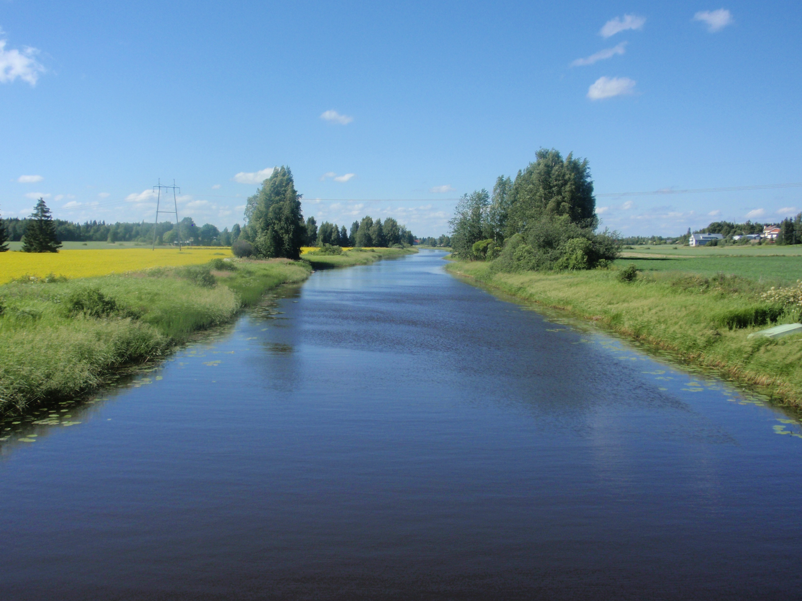 River Kauvatsa, Kokemäki municipality, Finland